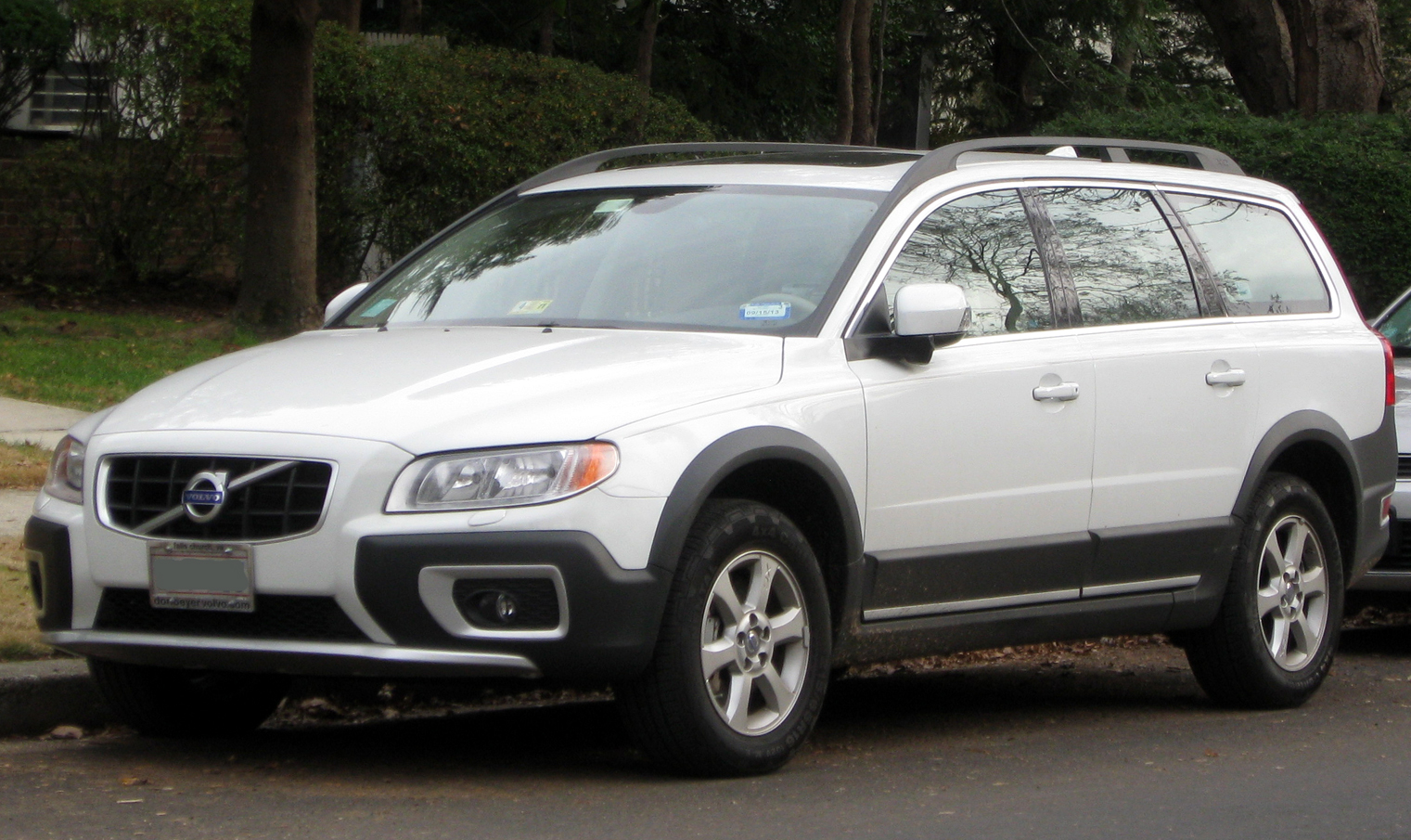 2011-present Volvo XC70 photographed in Washington, D.C., USA.